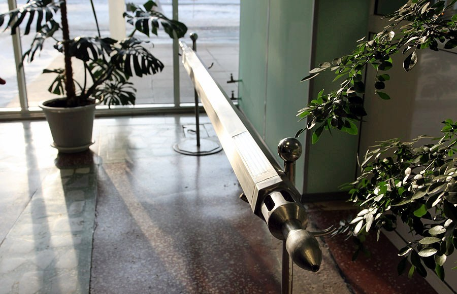 Nuclear fuel of a BN-600 reactor.